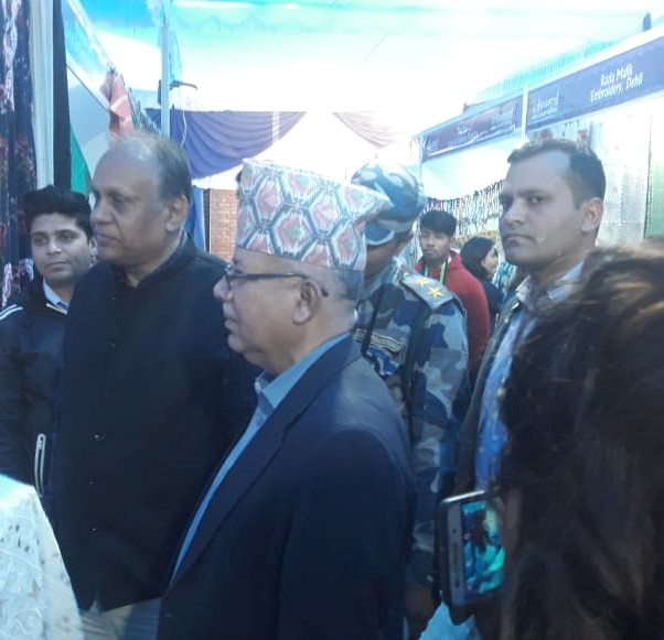 नेपाली: Mkn at India-Nepal Folk Crafts Festival Chhaya center 2075/12/19